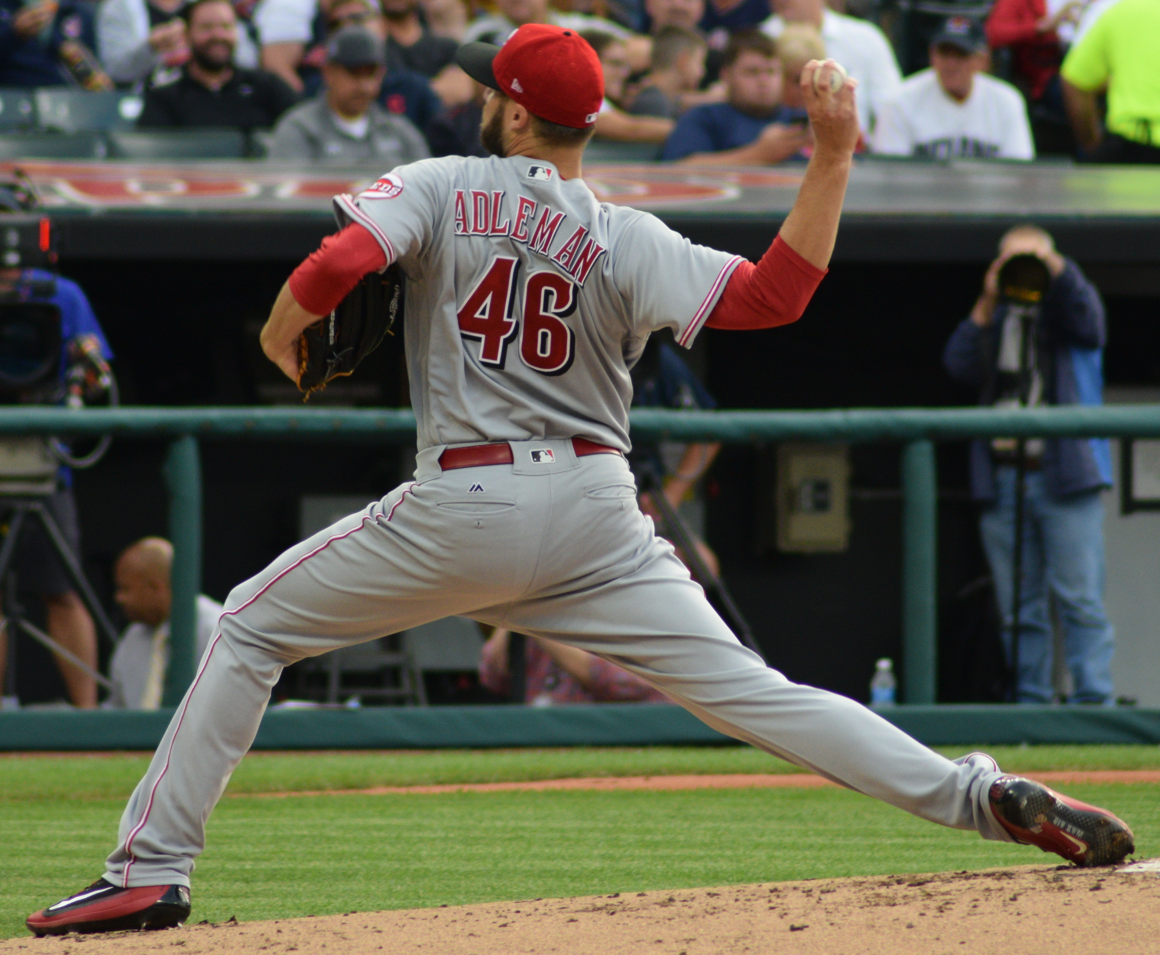 Tim Adleman of the Cincinnati Reds delivers a pitch during a 2017 game at Progressive Field in Cleveland